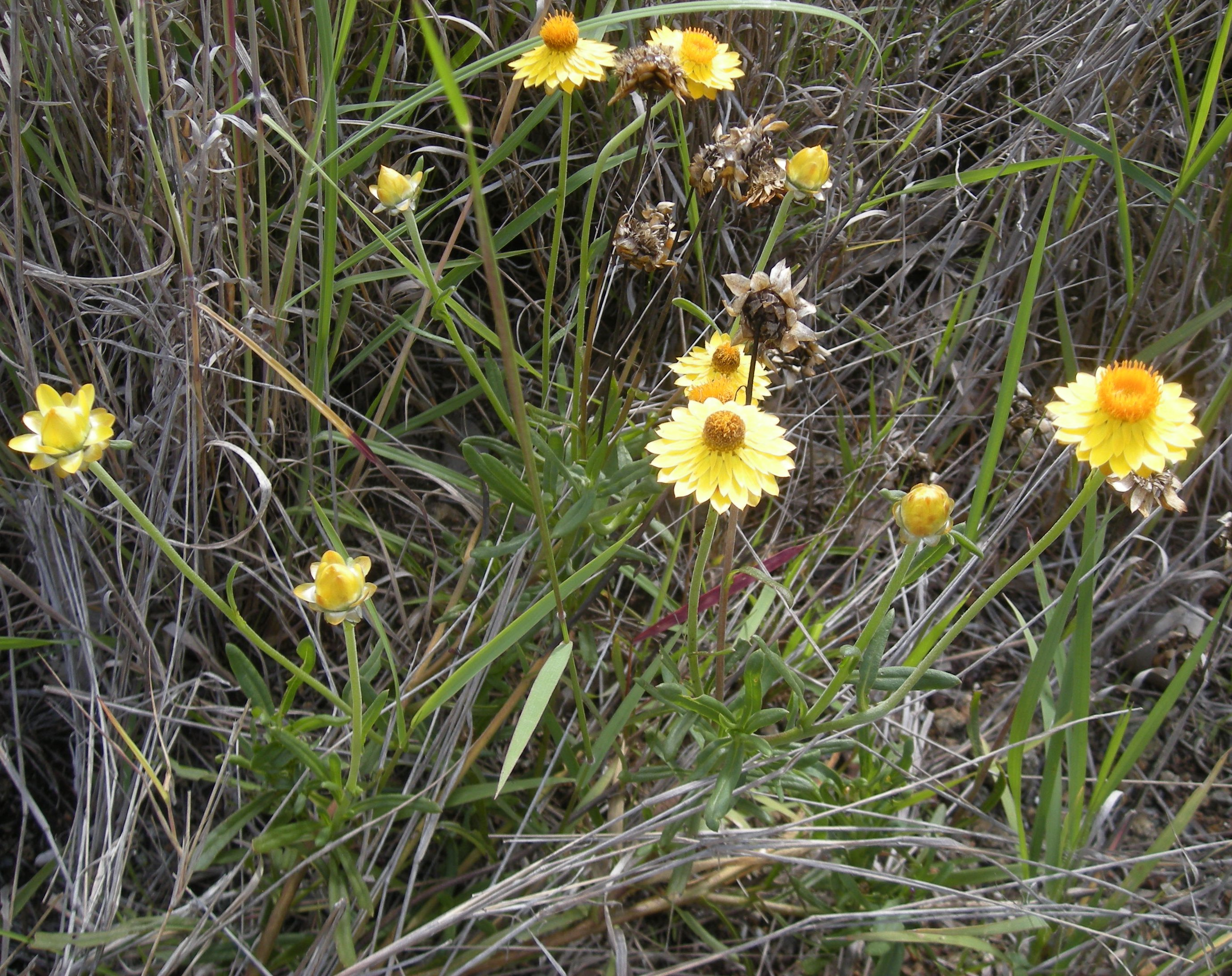 Wild form of Xerochrysum bracteatum (Bracteantha bracteata Golden everlasting daisy). Mount Etna Caves National Park, Central Queensland.